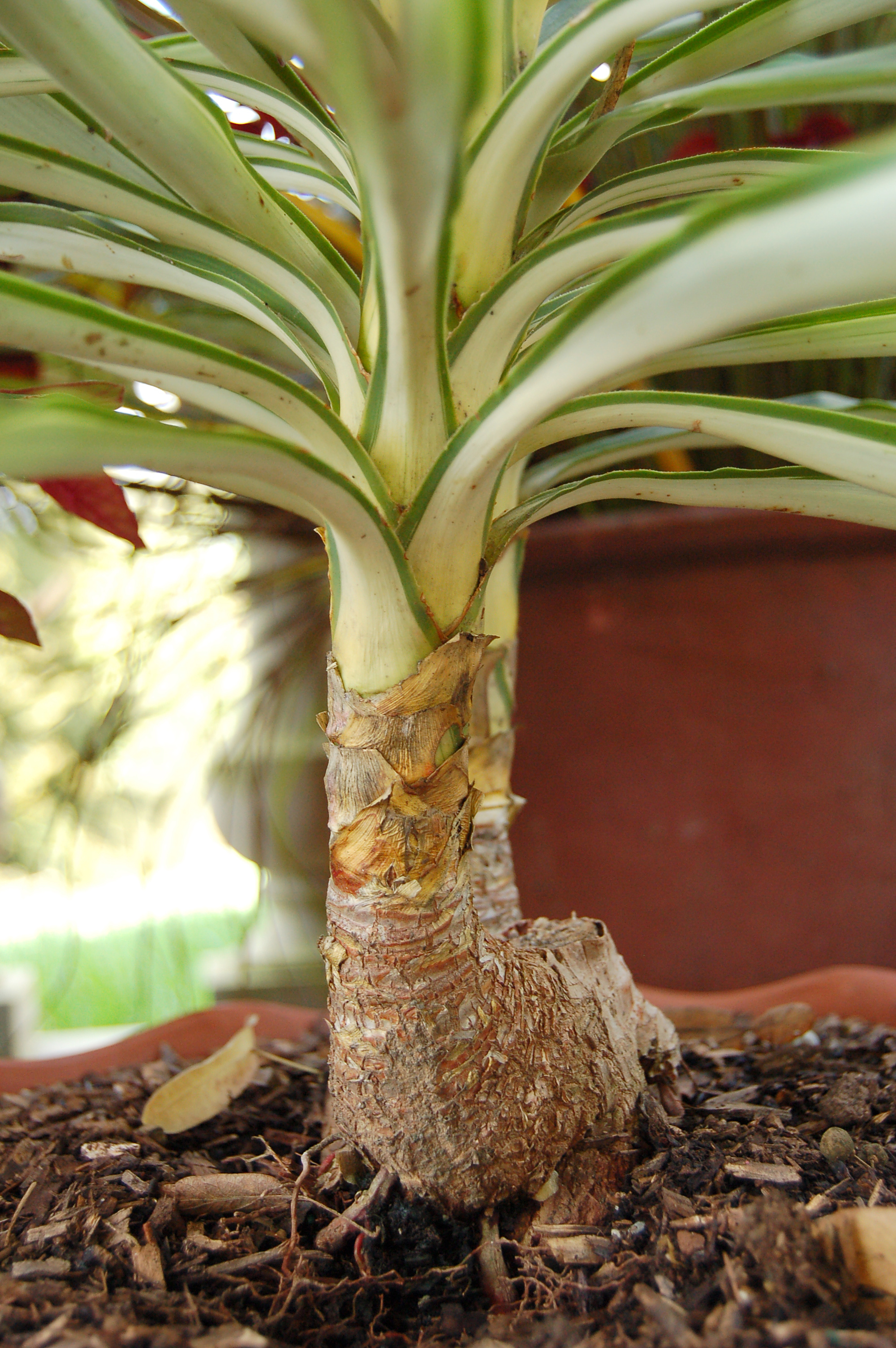 A picture the Yucca elephantipes en 'Silver Star' plant. Photo taken at the Chanticleer Garden where it was identified.